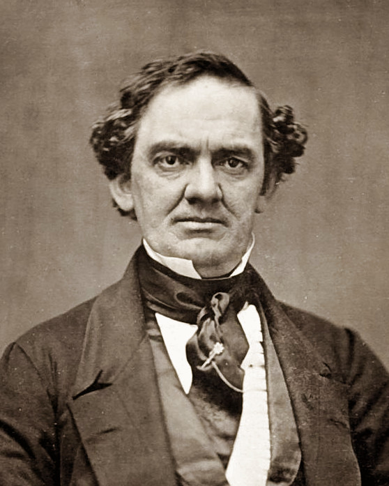 Phineas Taylor "P. T." Barnum (July 5, 1810 – April 7, 1891)